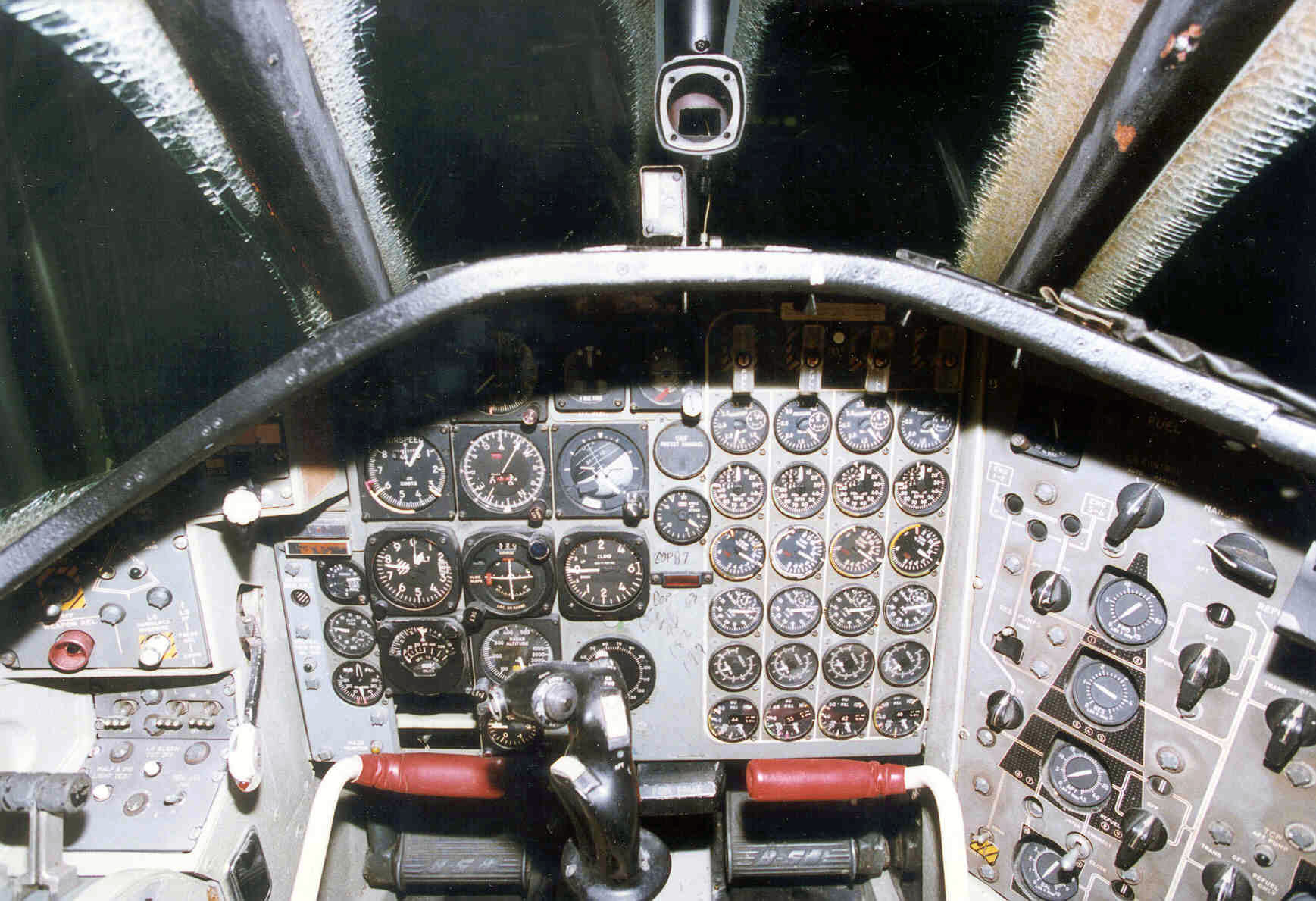 Convair B-58 Cockpit.